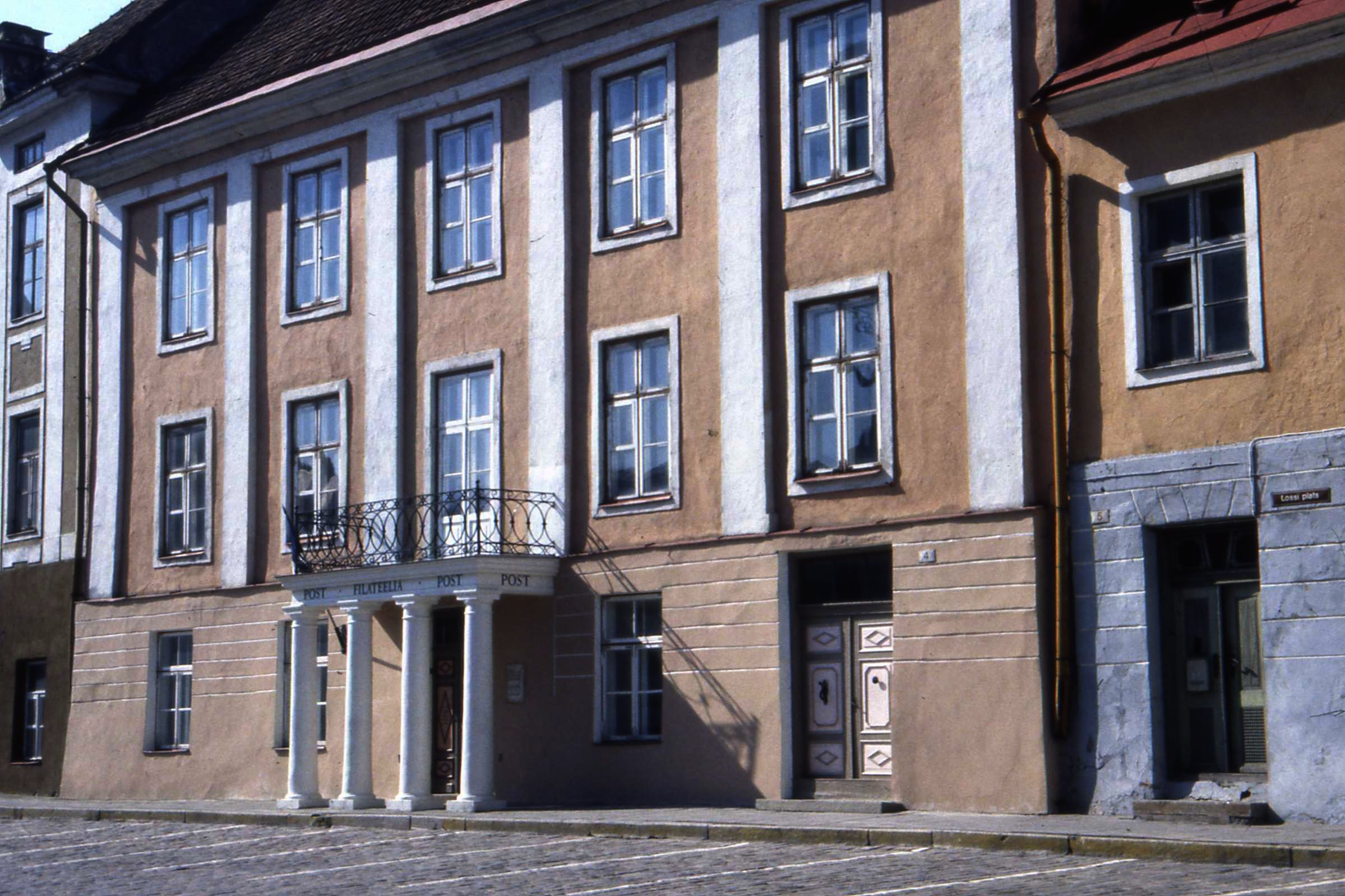 Post Office No 2, Tallinn